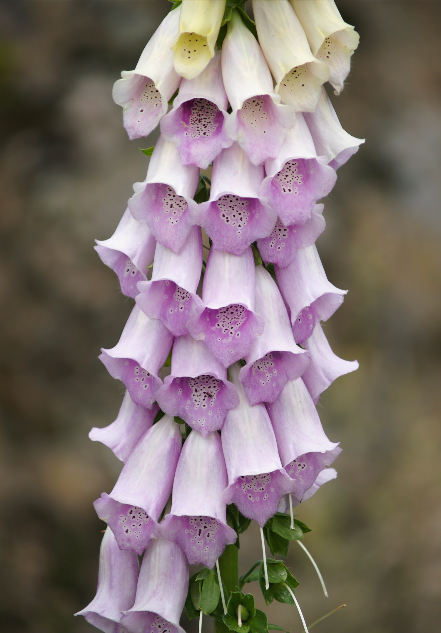 Blooms of Purple Foxglove (Digitalis purpurea), Geyer, Germany